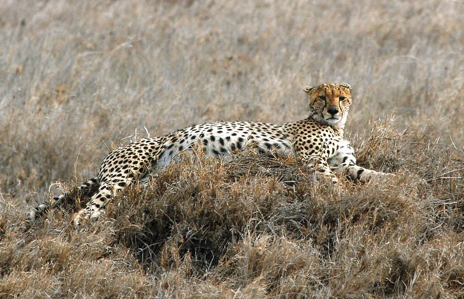 Acinonyx jubatus of Serengeti National Park Taken by Canon 350D, 100-400mm f/4.5-5.6 L IS